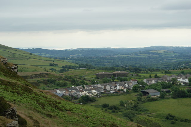 Trebanog Village from Cymmer Mountain A great view from the top of Cymmer Mountain , the Bristol Channel in the distance. Those concrete things are not flying saucers behind the village but water tanks.